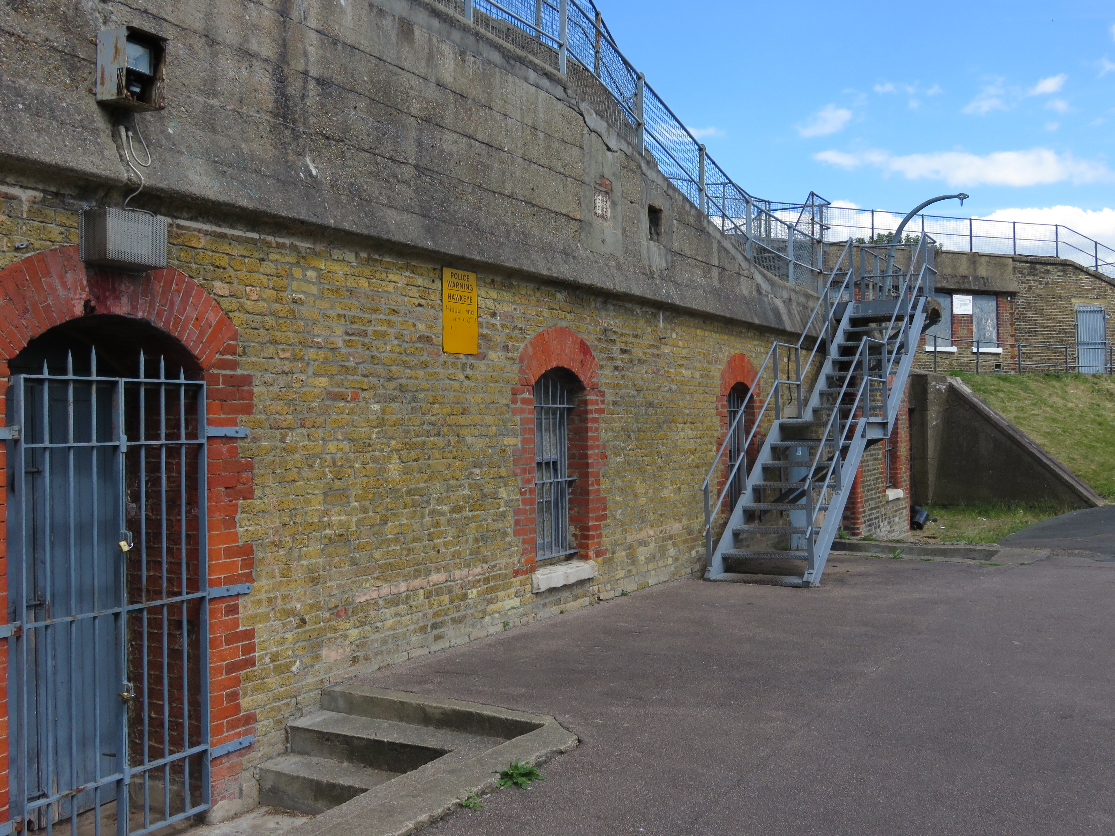 Part of the northern defence at New Tavern Fort, Milton, Gravesend